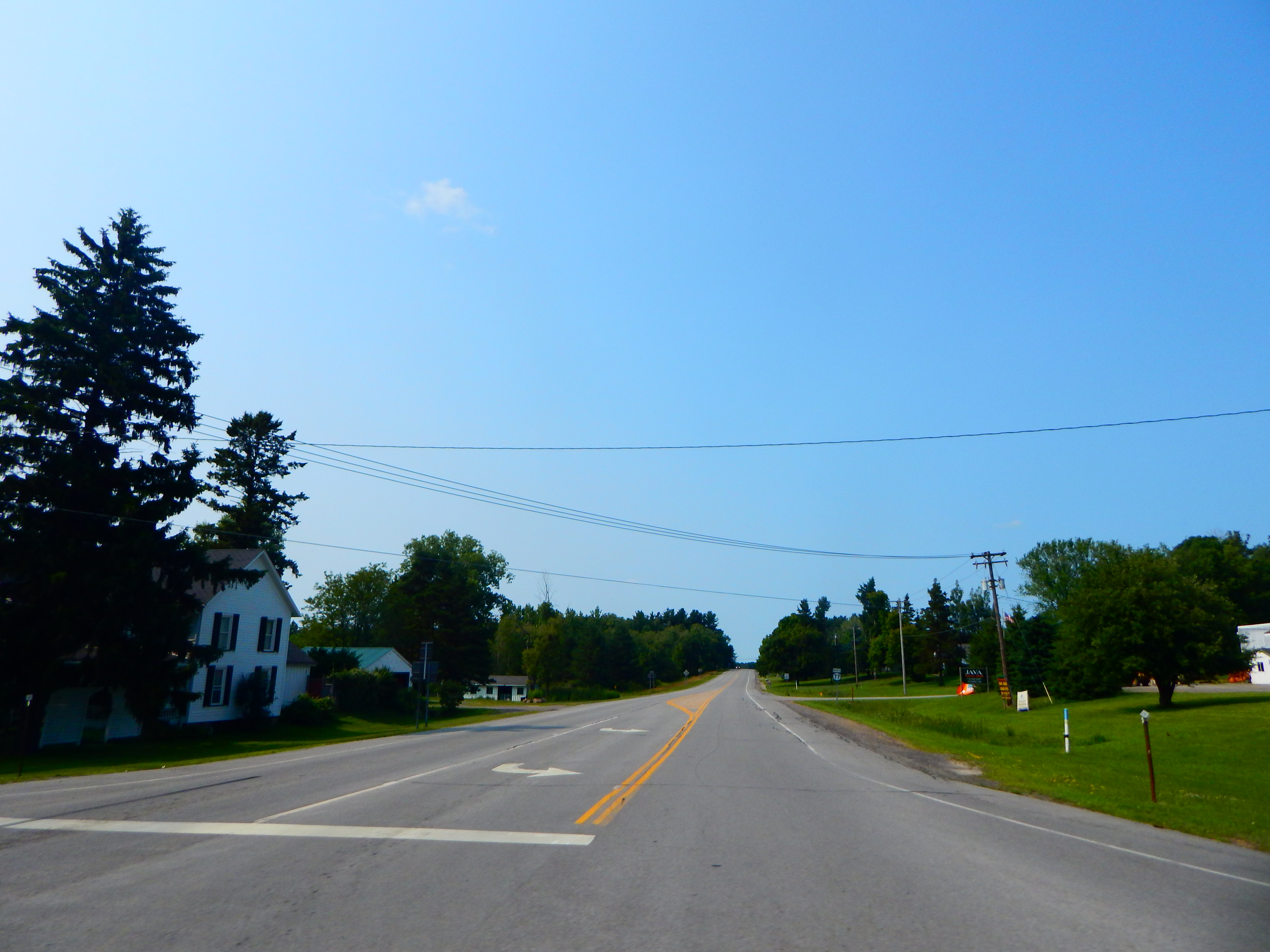 Route 77 northbound from Java Center, New York.